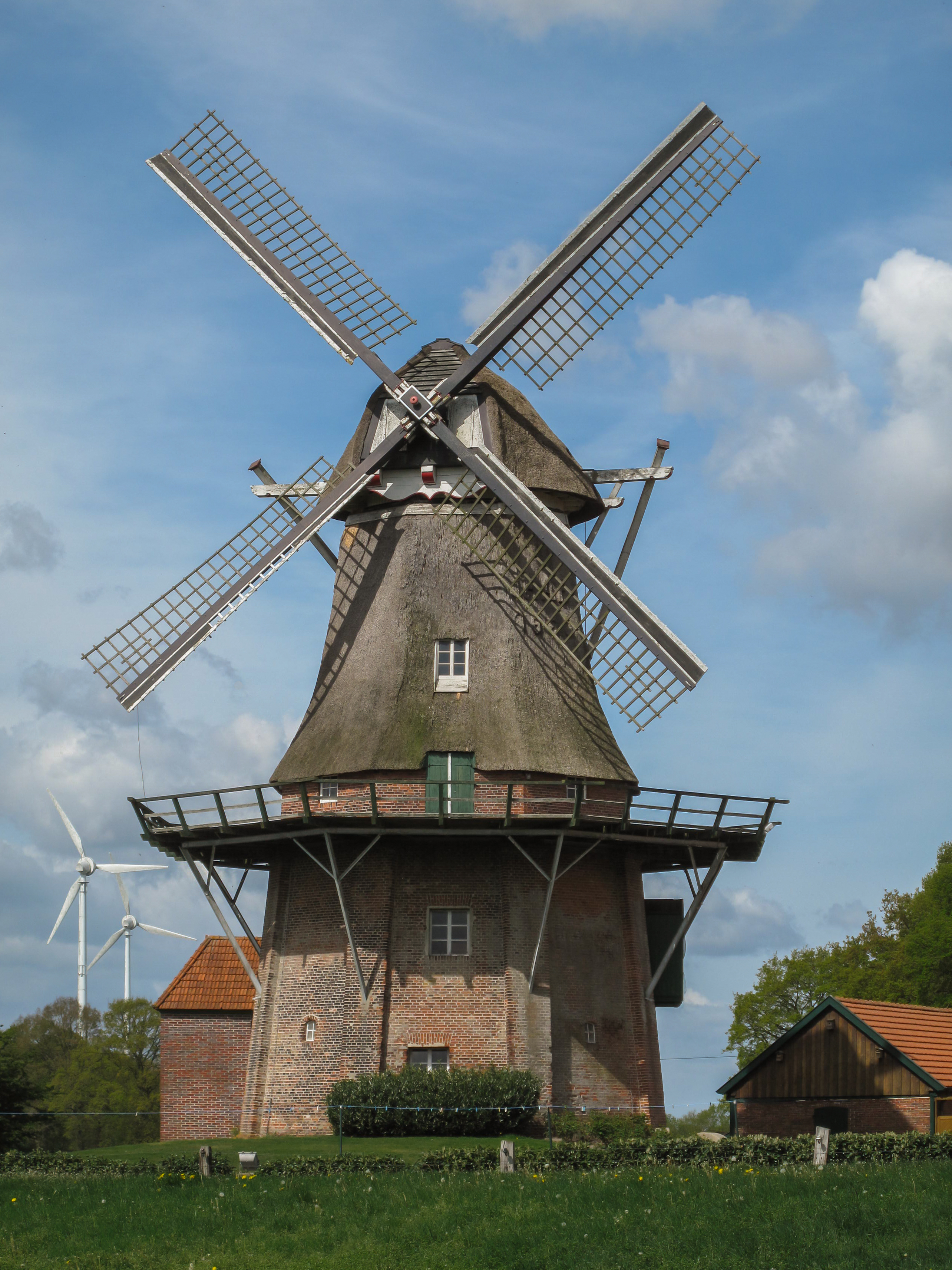 Westerscheps, windmill